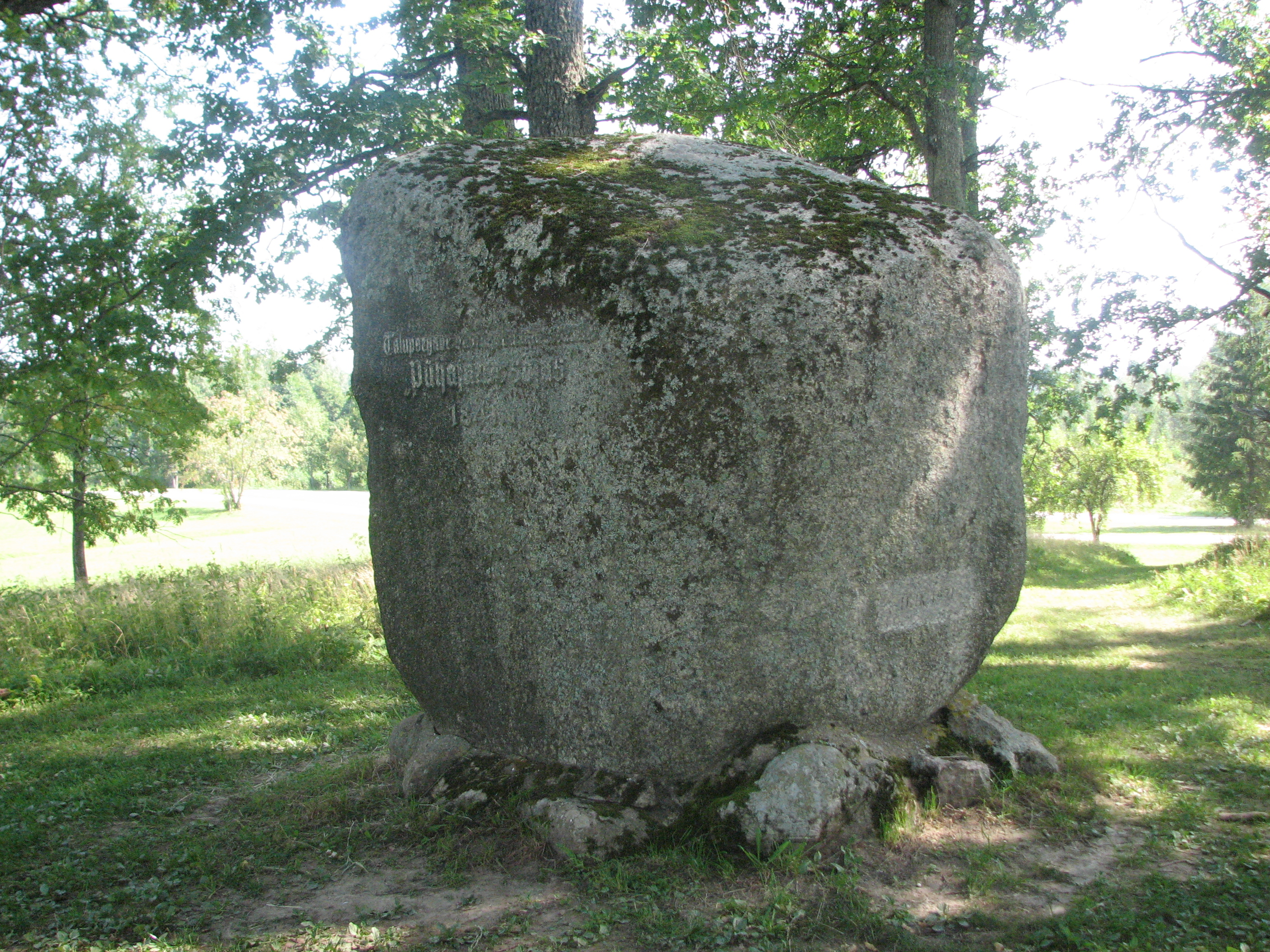 Oak Wood of War of Pühajärv in Pühajärv, Estonia